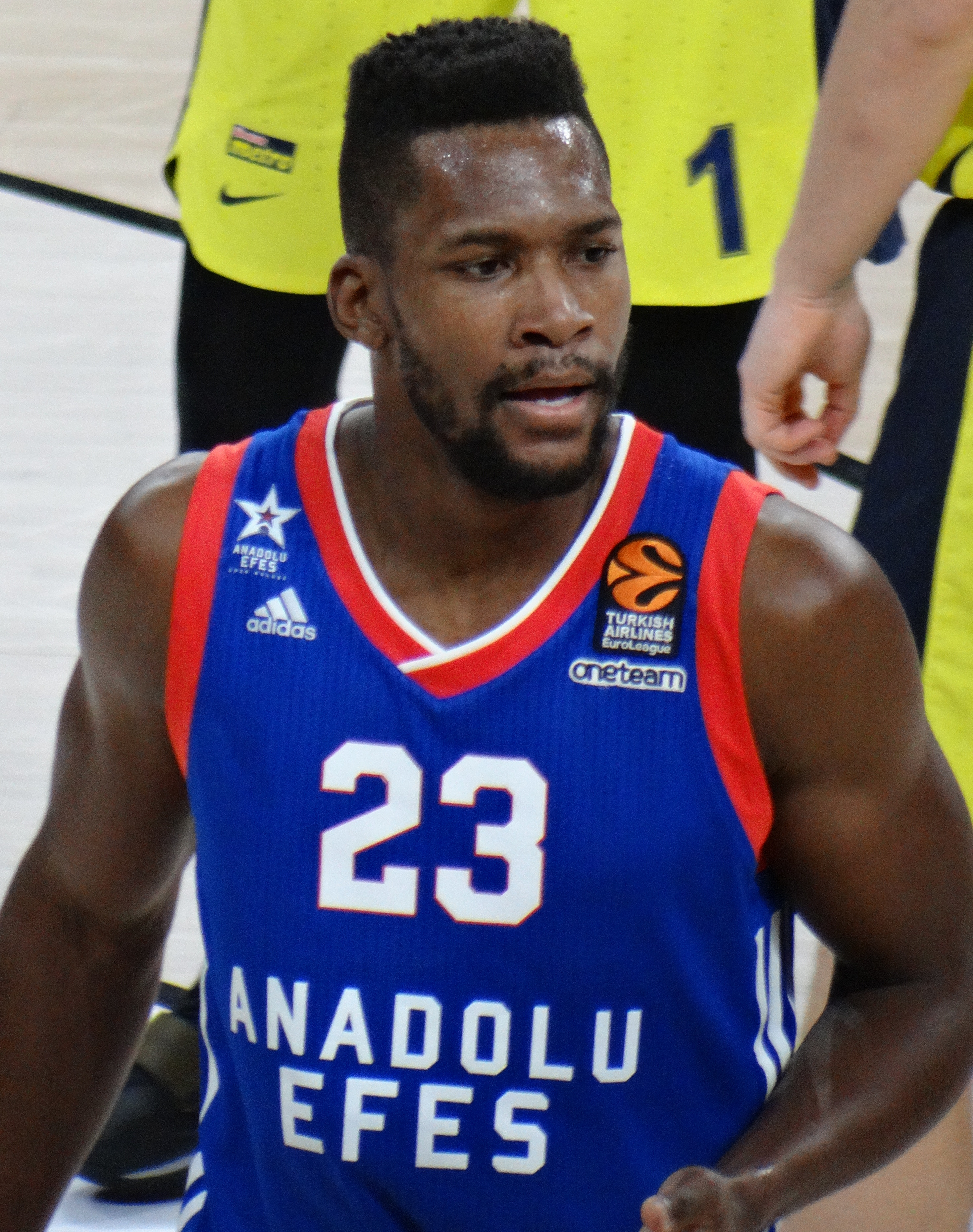 Toney Douglas 23 Anadolu Efes 20180119